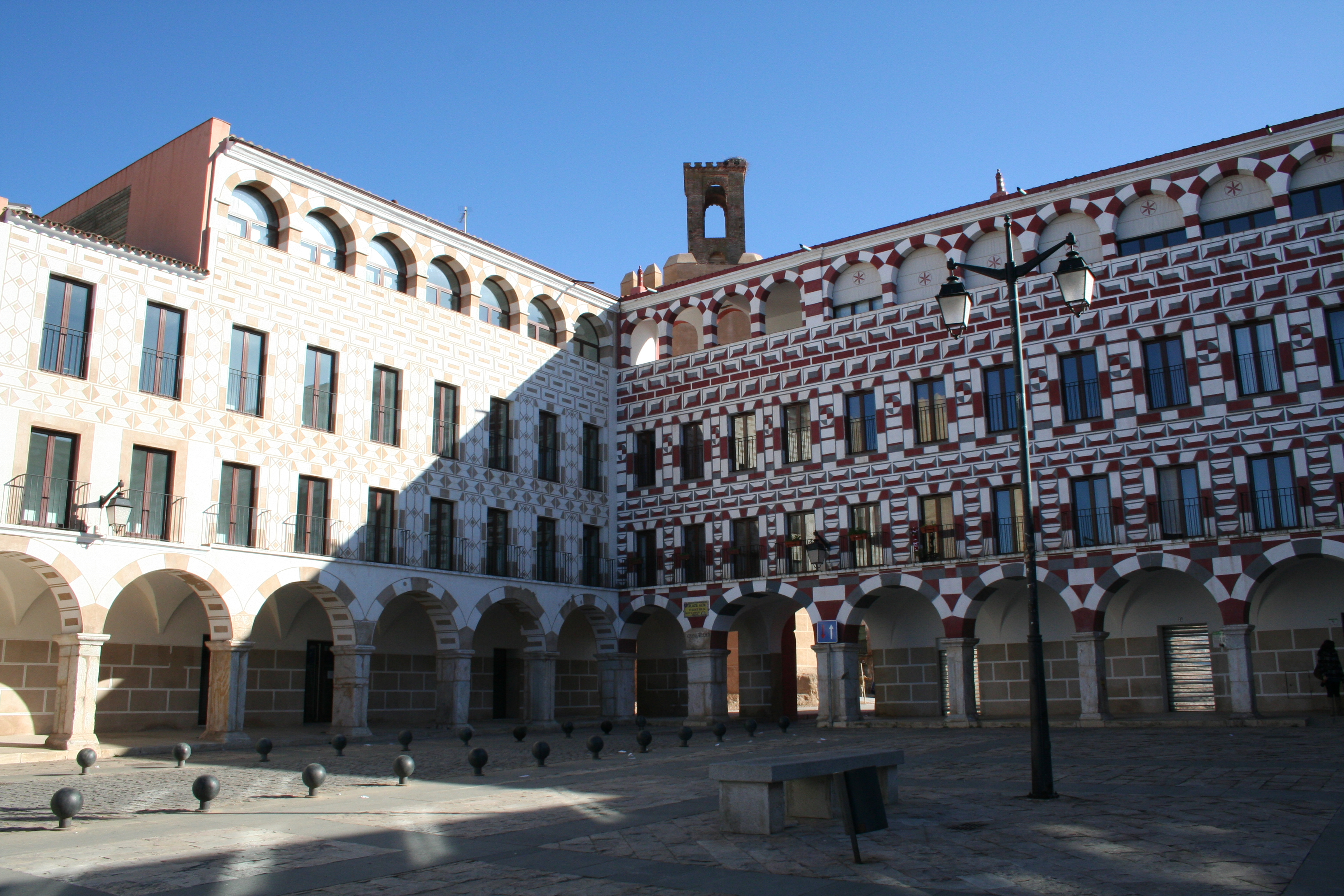 Arches tricolor of the recently restored High Plaza of Badajoz in the old town of the same city